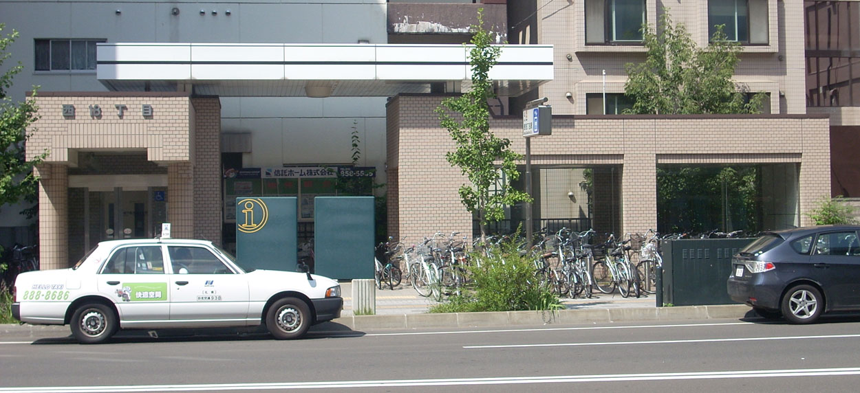 Sapporo subway Nishi juhatchome station, Chuo-ku, Sapporo, Hokkaido, Japan